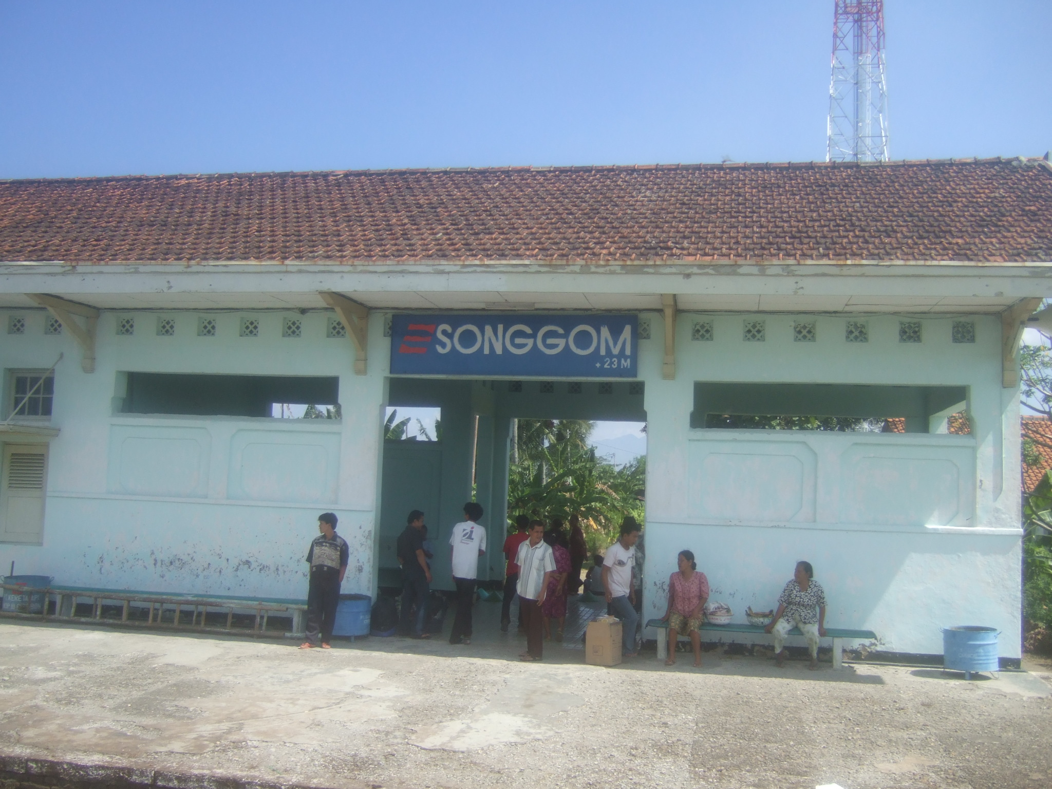 Songgom Station, Central Java, Indonesia